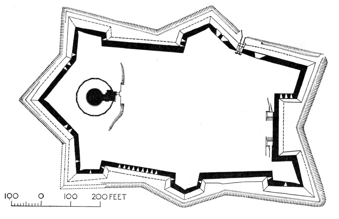 Plan of Pendennis Castle